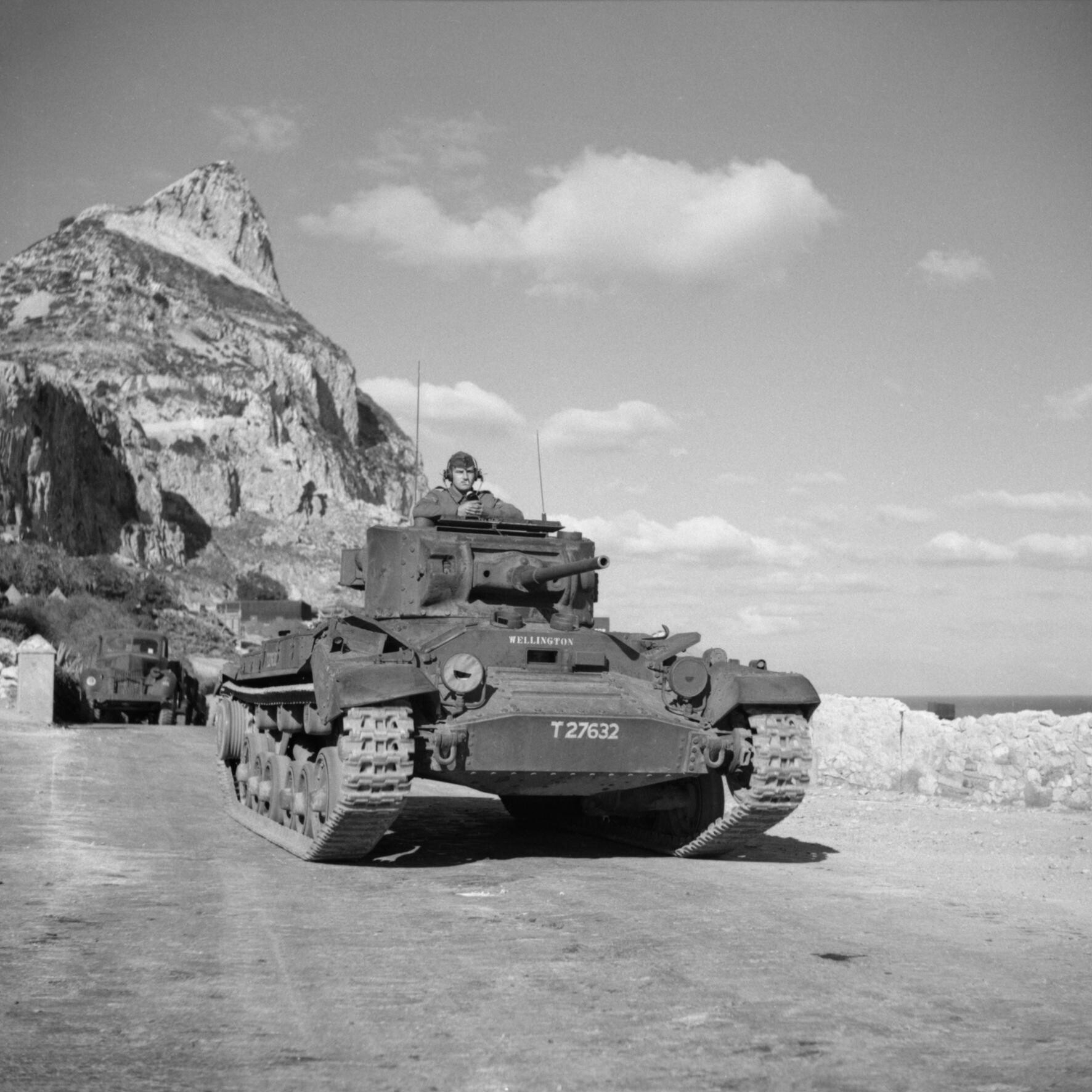 The British Army on Gibraltar 1942 A newly-arrived Valentine tank on Gibraltar, 30 November 1942.